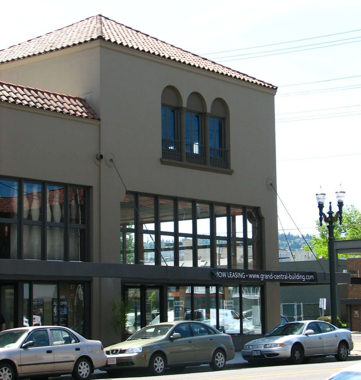 The Grand Central Public Market (built 1930) at 808 Southeast Morrison Street (block bounded by 8th and 9th Avenues and Belmont and Morrison Streets) in Portland, Oregon, United States, has one tower such as this at each corner. This is the northeast corner, as seen from across 9th Avenue. The building is listed on the US National Register of Historic Places. It is today in use as a multimedia entertainment center designed around a bowling alley, with additional retail space.